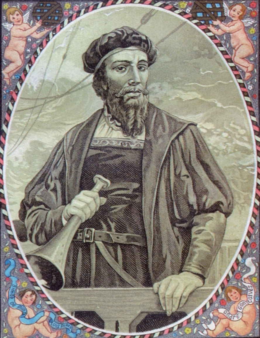 A miniature representing Pedro Álvares Cabral (the navigator who discovered Brazil) from the Livro das Armadas